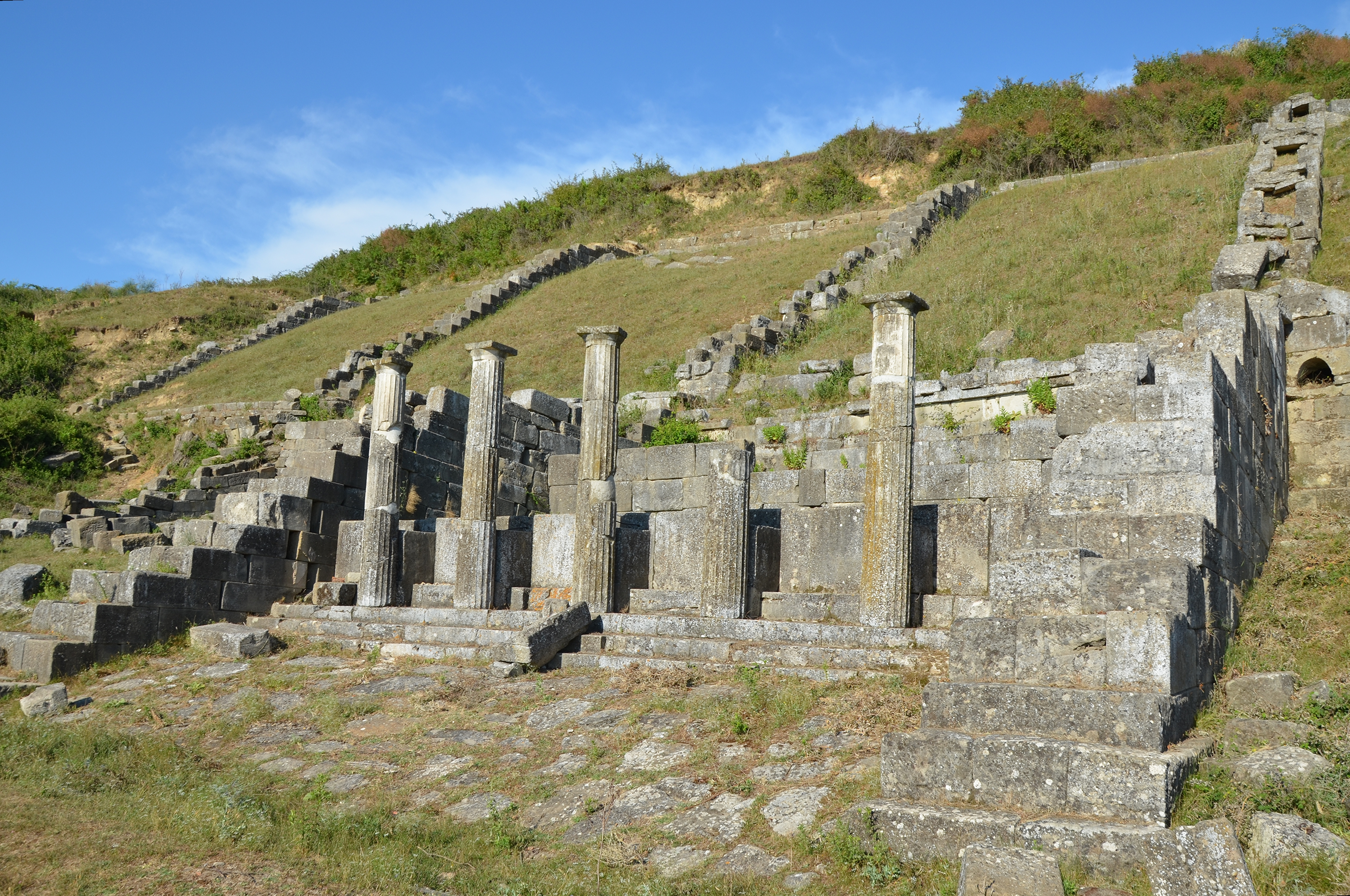 The Nymphaeum fed by the underground water sources, built in the middle of the 3rd century BC, it is the biggest and best preserved monument of Apollonia covering an area of 1,500 square metres, Apollonia, Albania